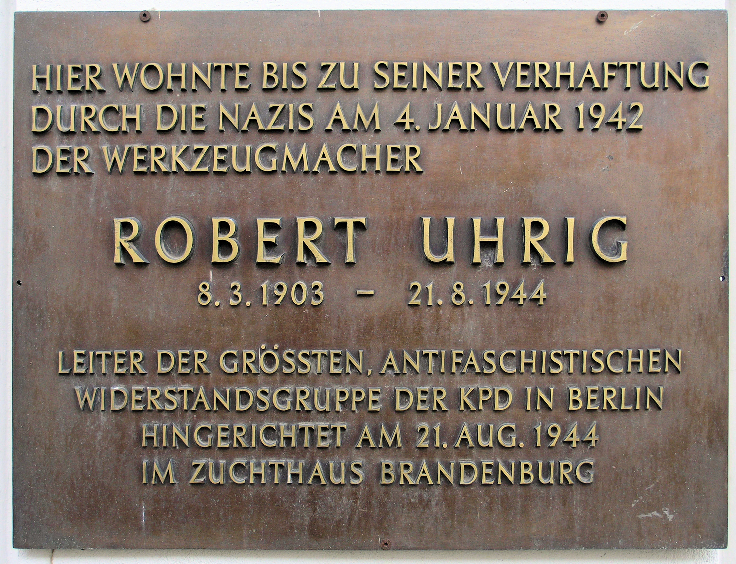 Memorial plaque, Robert Uhrig, Wartburgstraße 4, Berlin-Schöneberg, Germany Koordinate:52°29′15″N 13°21′4″E / 52.4875°N 13.35111°E